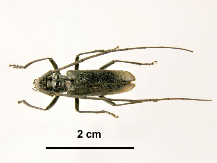 A male of Fir Sawyer Beetle Monochamus urussovi from Hokkaido (Japan). Dorsal view. The specimen identified by H. Akiyoma.